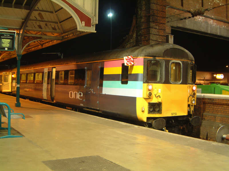 DBSO 9710 at Norwich railway station on 21 April 2004. Photograph by Amos E Wolfe uploaded 15:11, 17 September 2006 (UTC)